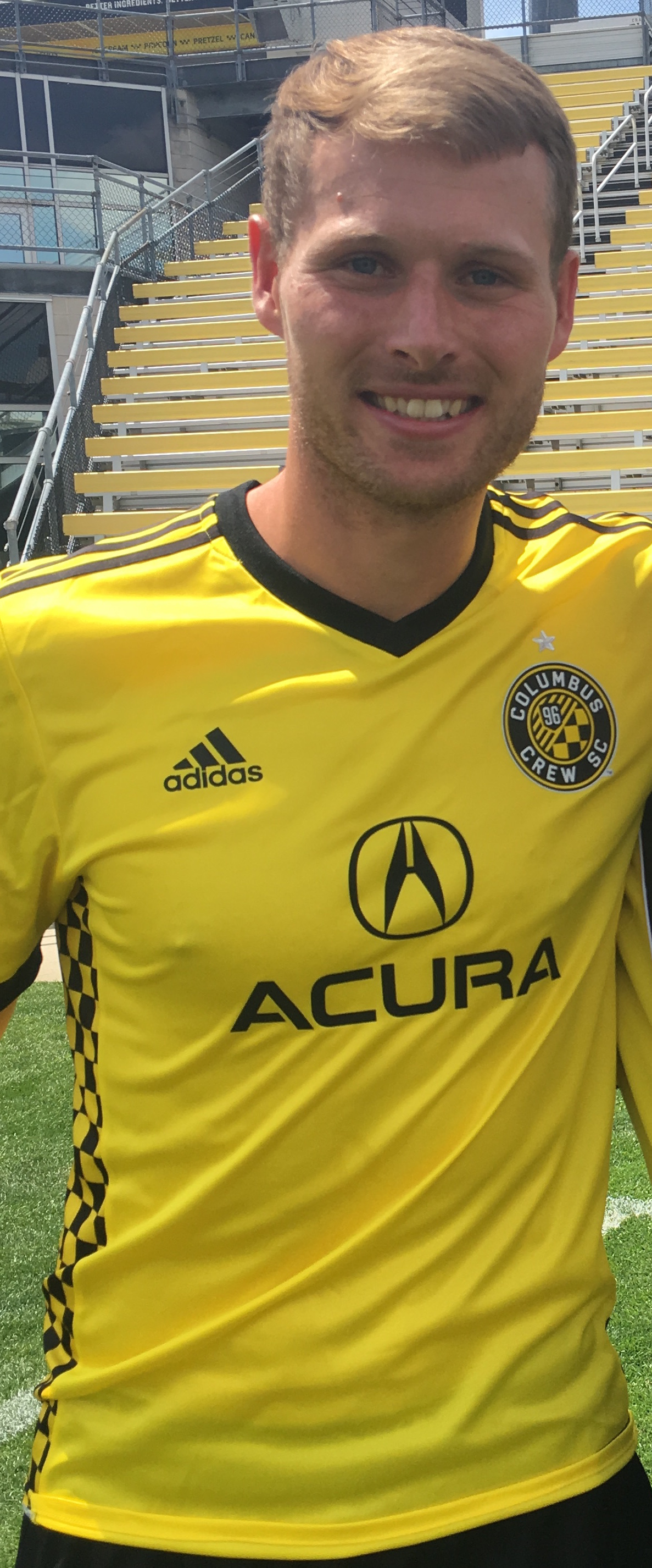 Picture of Adam Jahn at a Columbus Crew SC Meet the Team event in 2017.